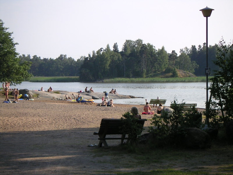 A beach at Kivinokka in Herttoniemi, Helsinki, Finland